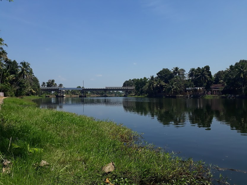 The Railway Bridge Across Puthanar